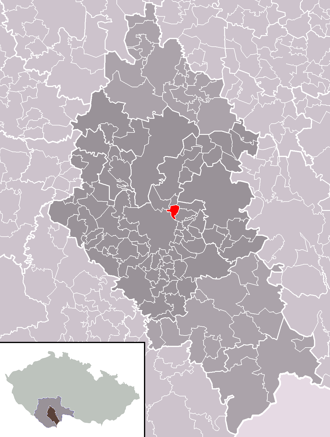 Location of Úsilné municipality within České Budějovice District and administrative area of České Budějovice as a Municipality with Extended Competence.